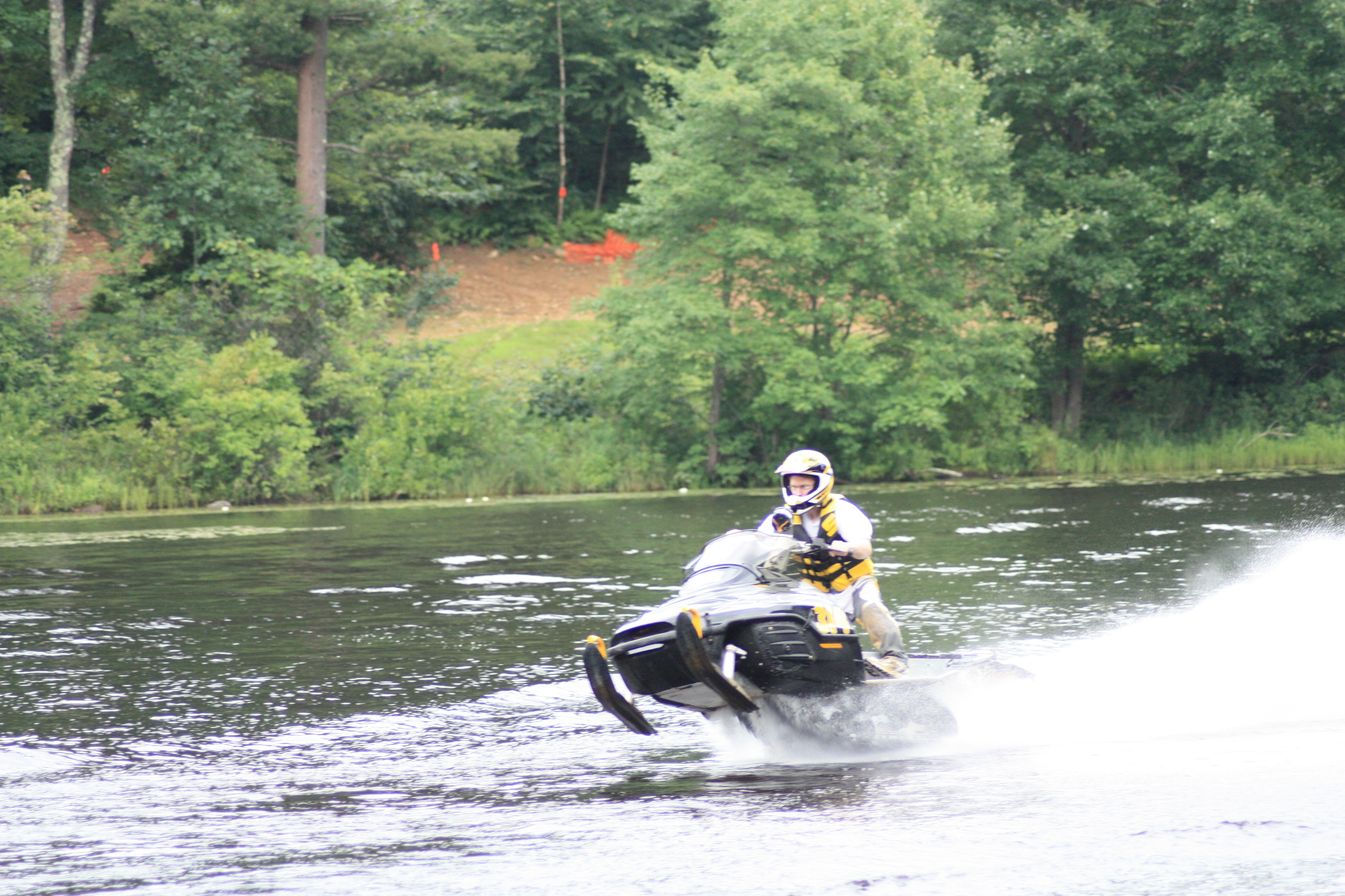 Closeup of a rider doing Snowmobile skipping in Connecticut.